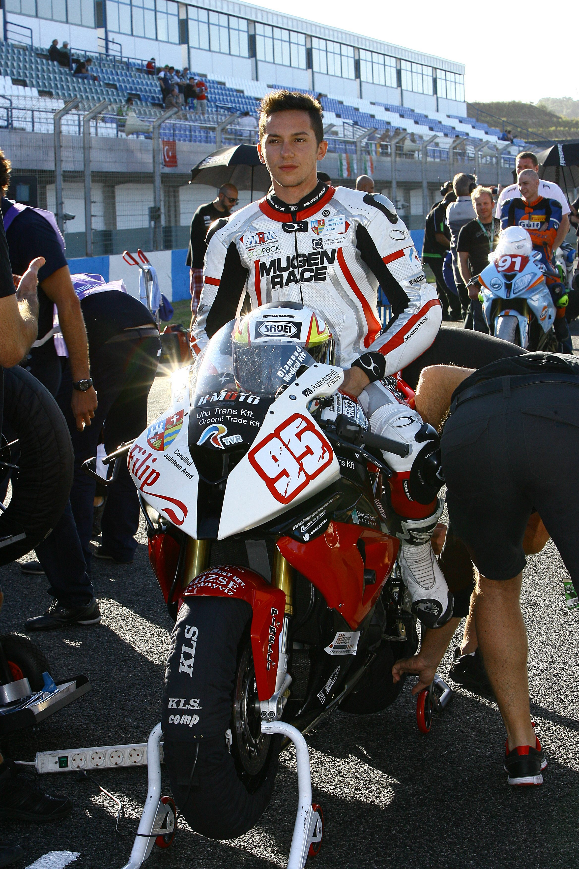 Robert Muresan World Superbike Championship